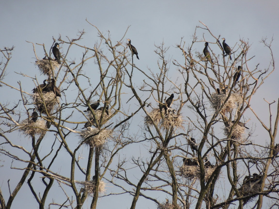 Large colony of cormorants